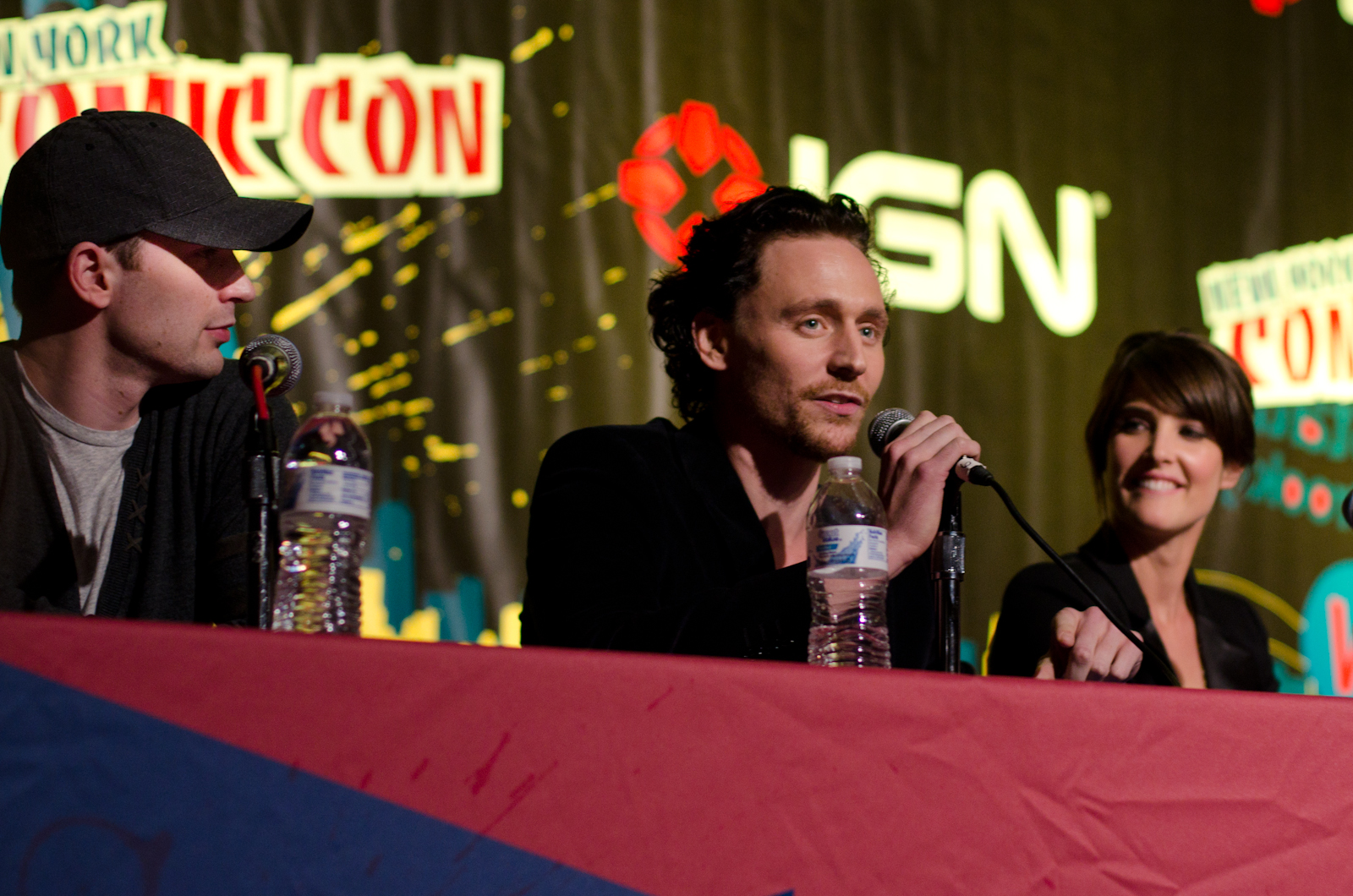 Chris Evans, Tom Hiddleston and Cobie Smulders promoting The Avengers at the 2011 New York Comic Con.